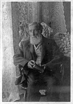 Photo of Captain John Bengough (1819–1899), father of John Wilson Bengough. Photo by Elven John Bengough (1881–1959)